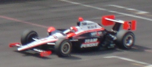 Hélio Castroneves makes his pole-winning qualification run for the 2010 Indianapolis 500 during the "shootout" segment of Pole Day qualifying.